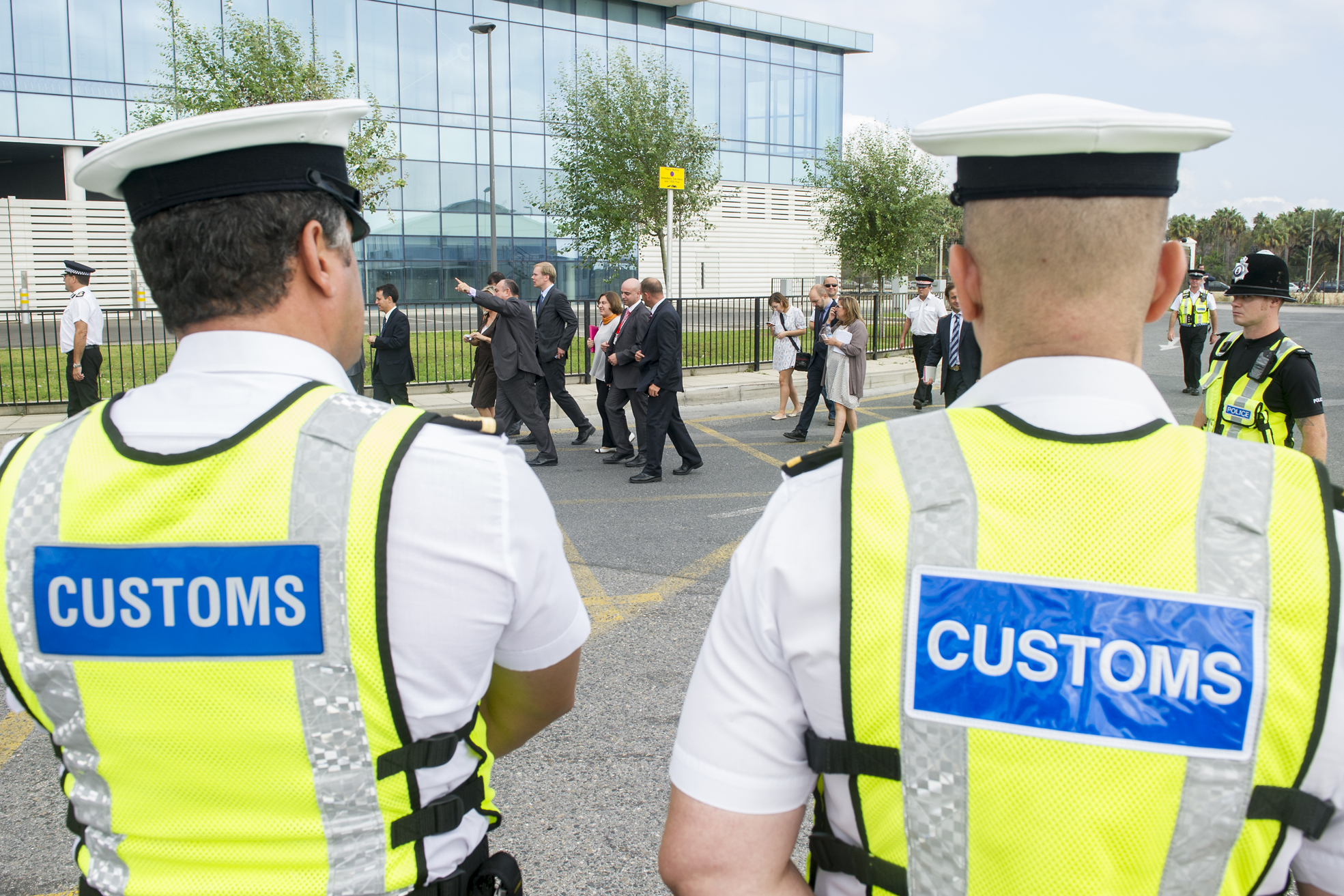 HM Customs officers look on as a team of six European Commission inspectors assess the situation at the Gibraltar-Spain border.